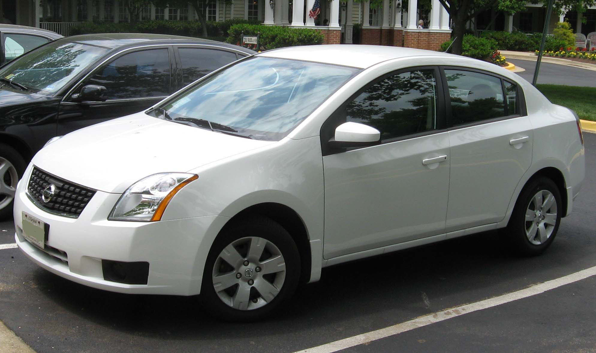 2007 Nissan Sentra photographed in USA.